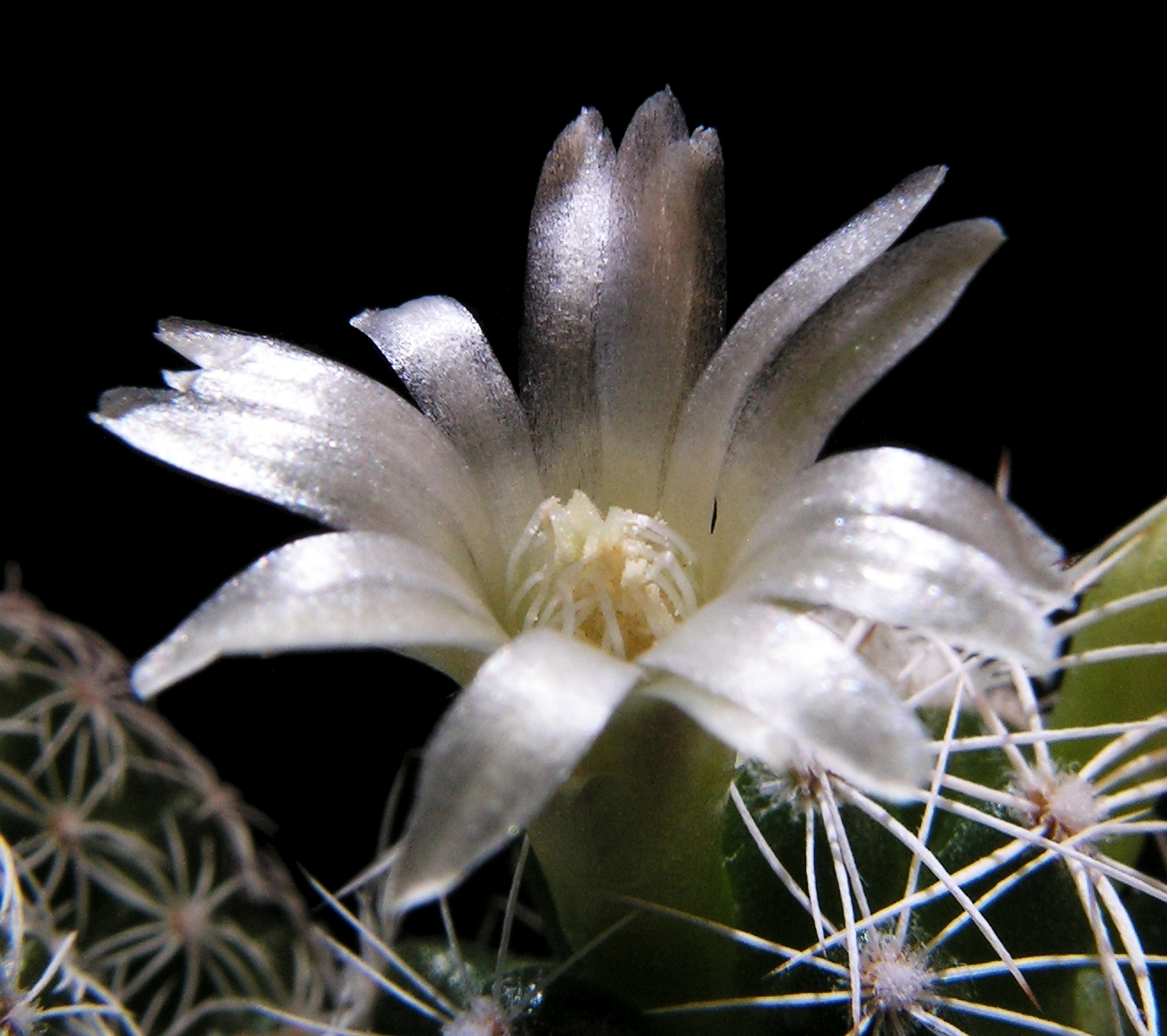 The flower of Mammillaria vetula ssp. gracilis